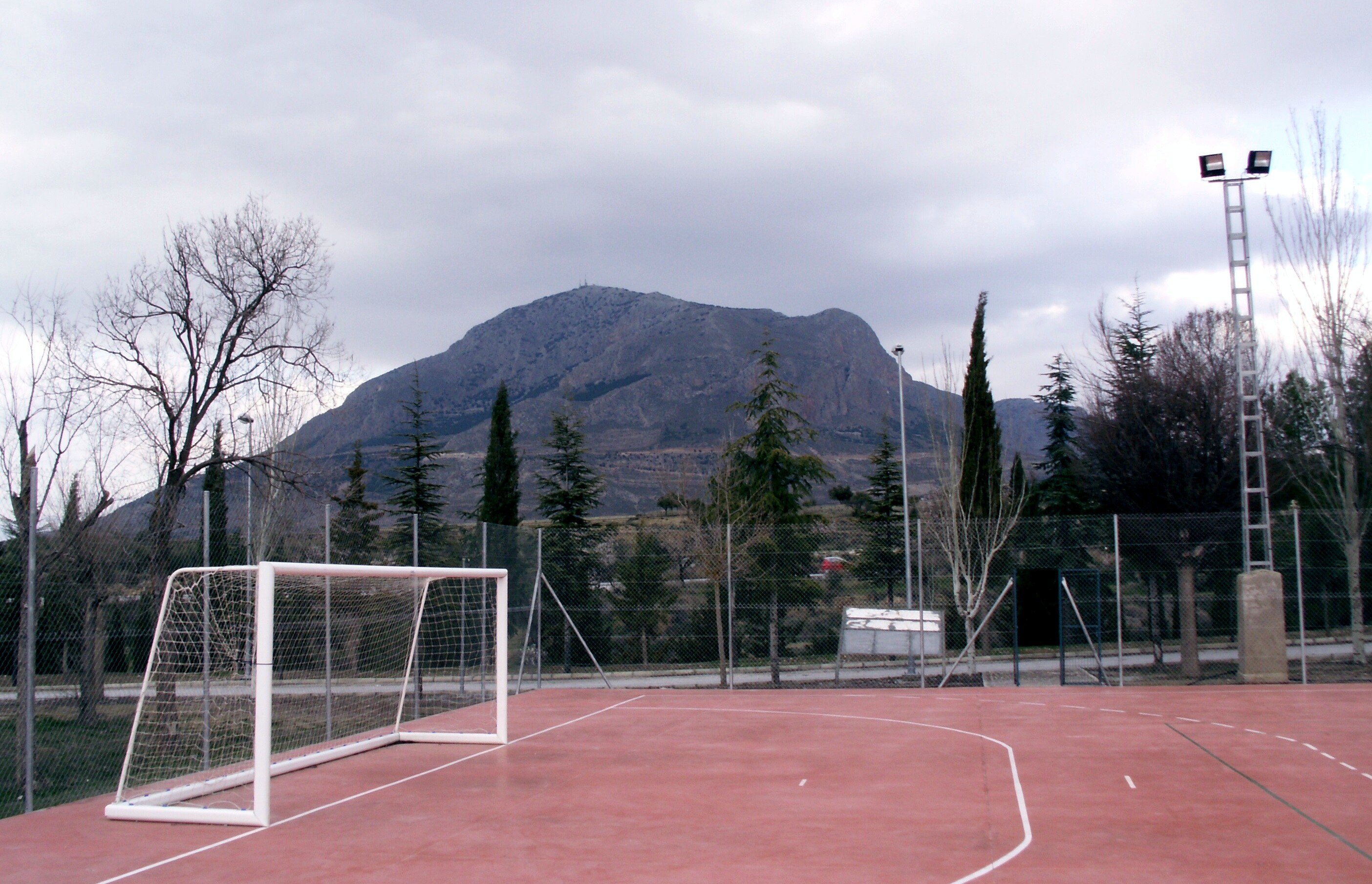 Zújar, Spain